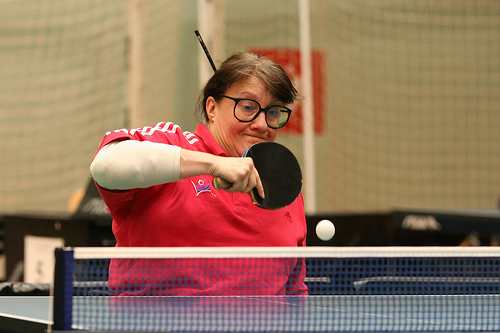 Catherine Mitton (Great Britain)